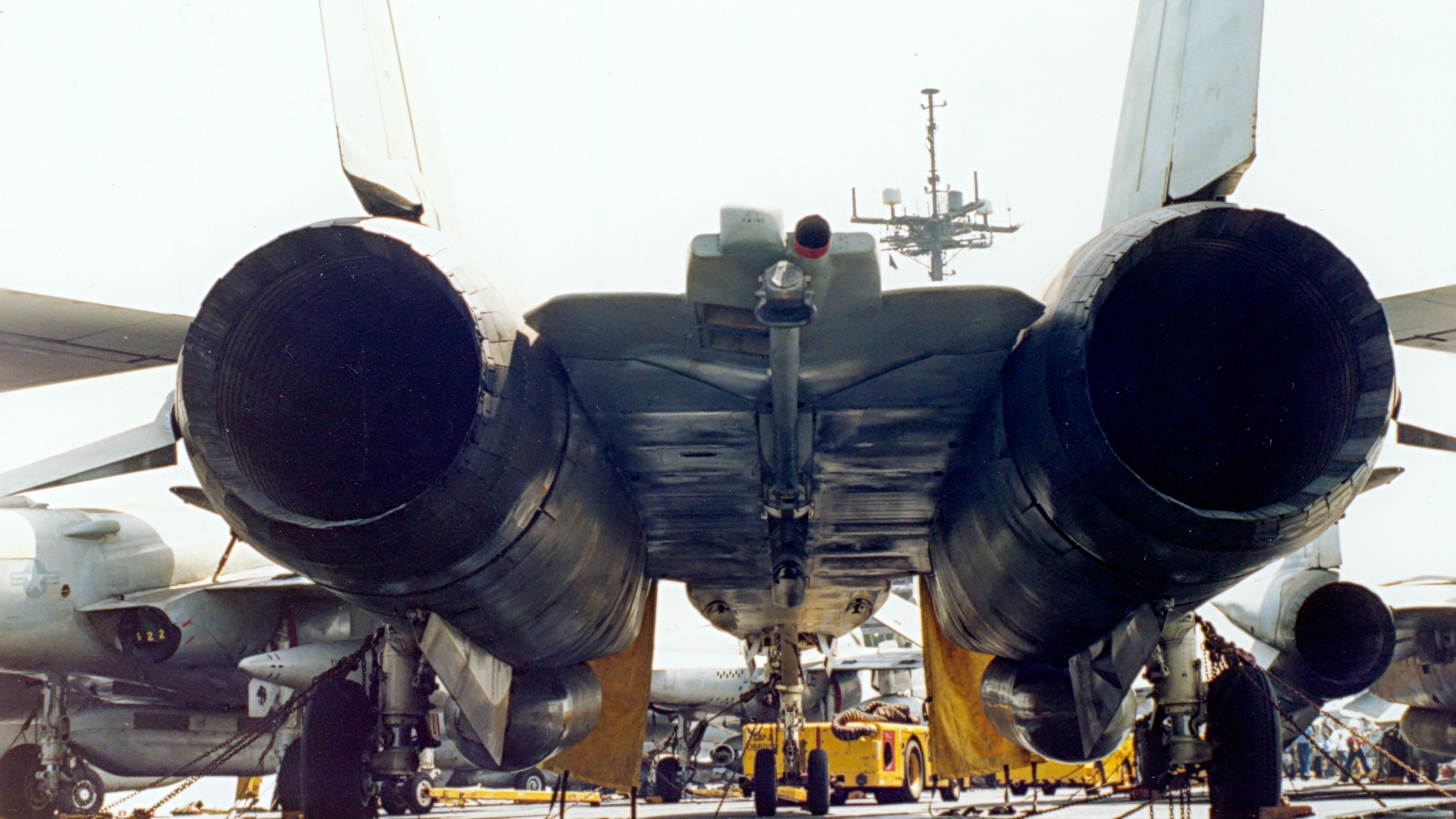 This photograph of an F-14 Tomcat was taken aboard the USS Independence (CV-62) in 1992. The fuselage consists of a large flat area called the "tunnel" between the engine nacelles.